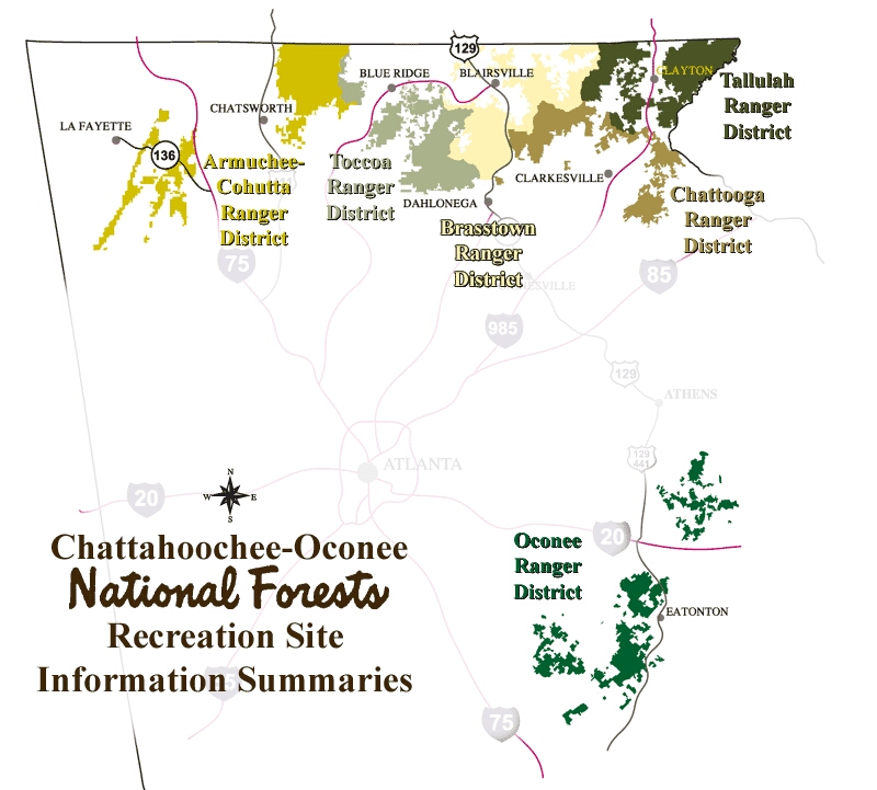 Map of Chattahoochee-Oconee National Forest showing ranger districts. Transwiki approved by: User:Dmcdevit. This image was copied from en.